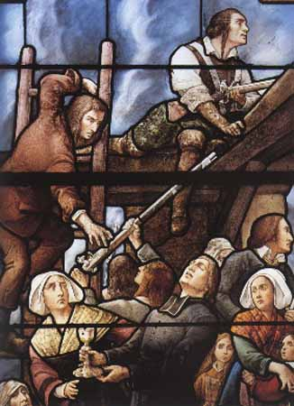 Stained glass window of the Saint Pierre church of Chanzeau, presenting a scene of the war in Venée, when the insurgents took refuge in the bell tower which was put on fire by the republican army on January 25, 1793